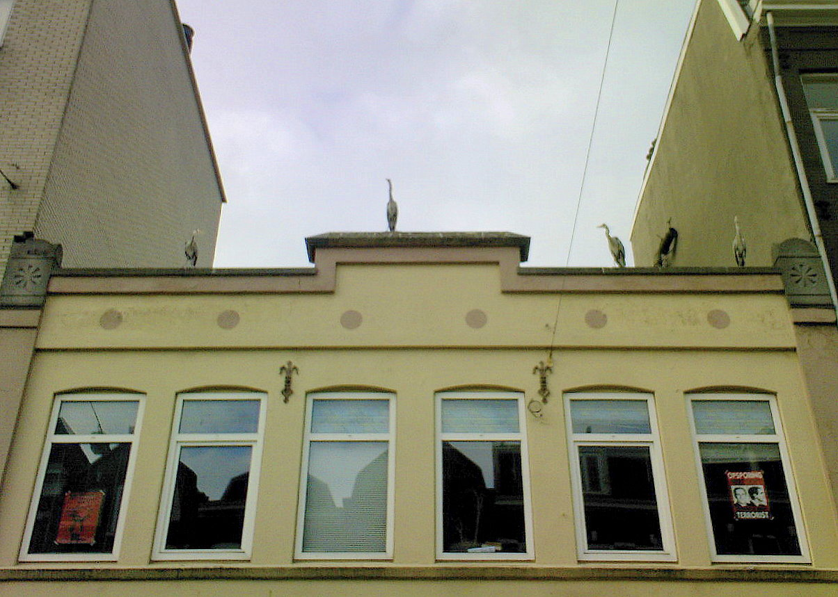 Grea Herrons waiting for fish market to close in Amsterdam (Albert Cuyp mkt)